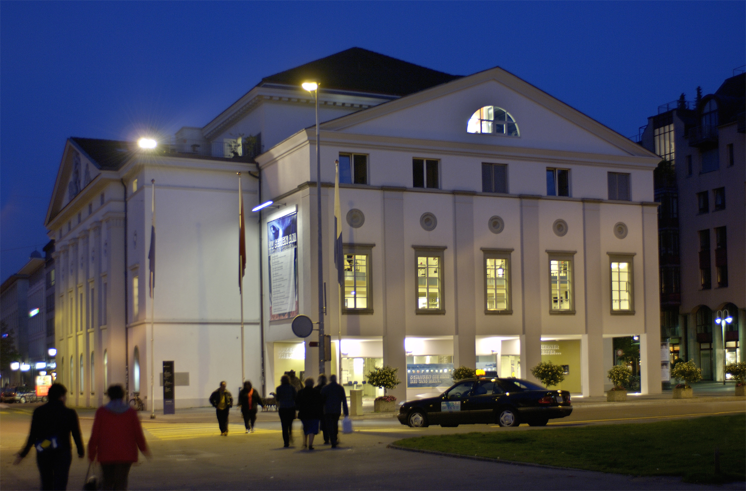 Lucerne Theater by Night - Lucerne Theaterhouse, Switzerland